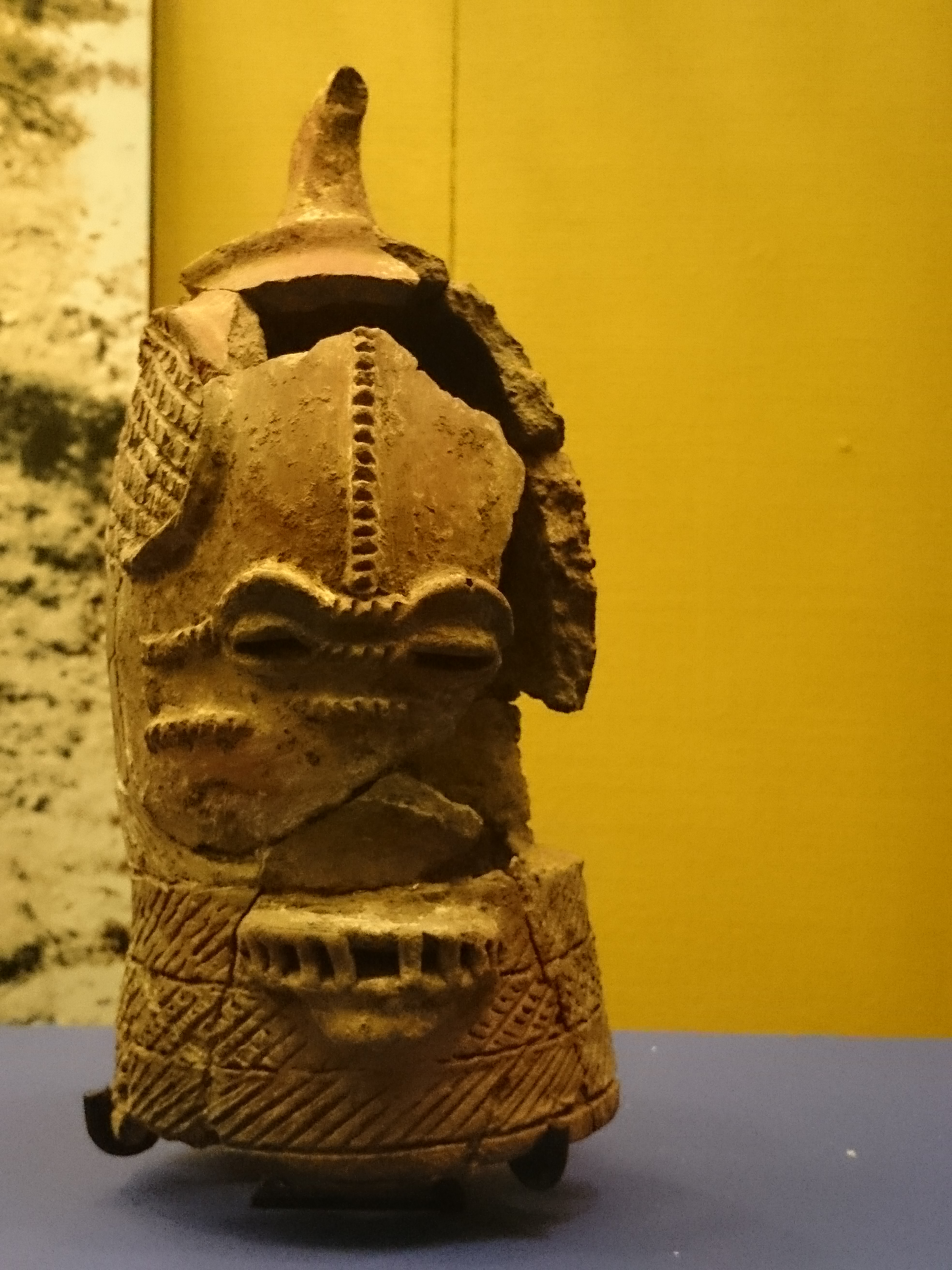 The Lydenburg heads are the earliest known examples of African sculpture in Southern Africa. Two of the heads are large enough to have been worn as ceremonial helmet masks. The other five smaller heads have a hole on either side of the neck, by which they could have been attached to a pole or costume during a performance. One of the small heads has an animal-like nose and mouth, which would have been a symbolic importance to the makers of the heads.